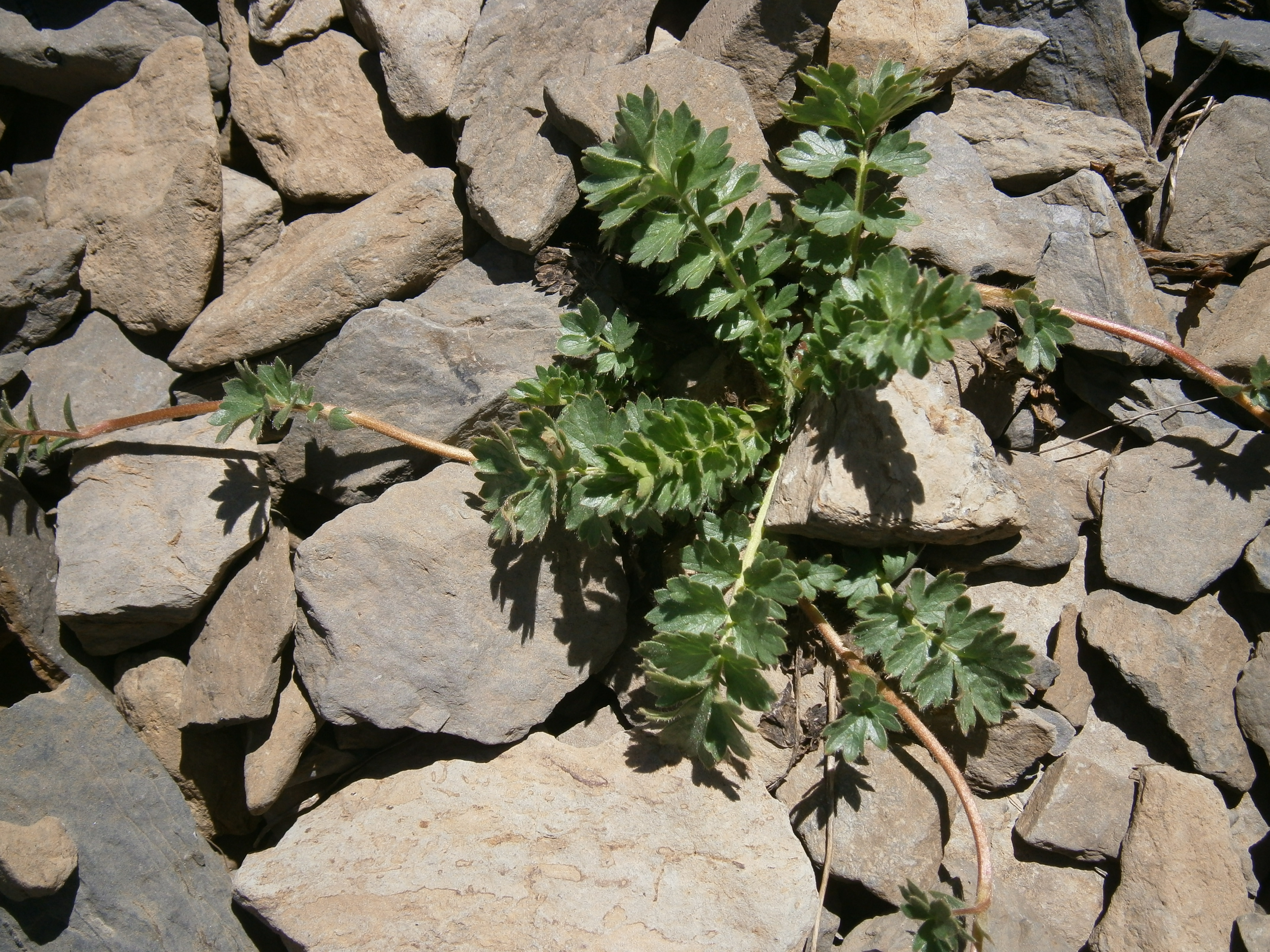 Geum reptans stolon